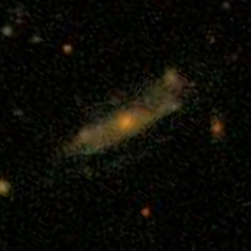 2MASX J16394598+4609058 (super spiral galaxy)